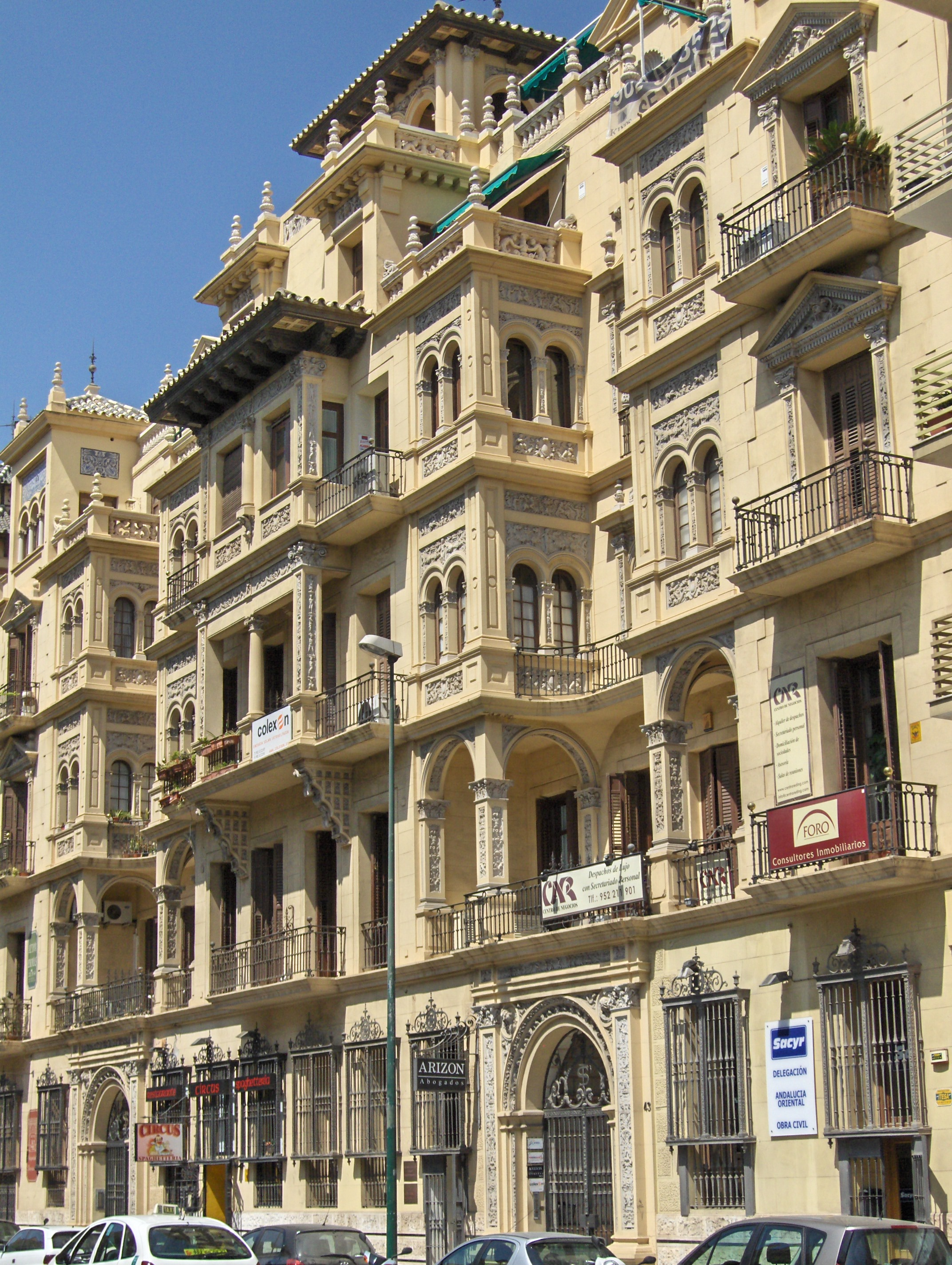 Casas de Félix Sáenz